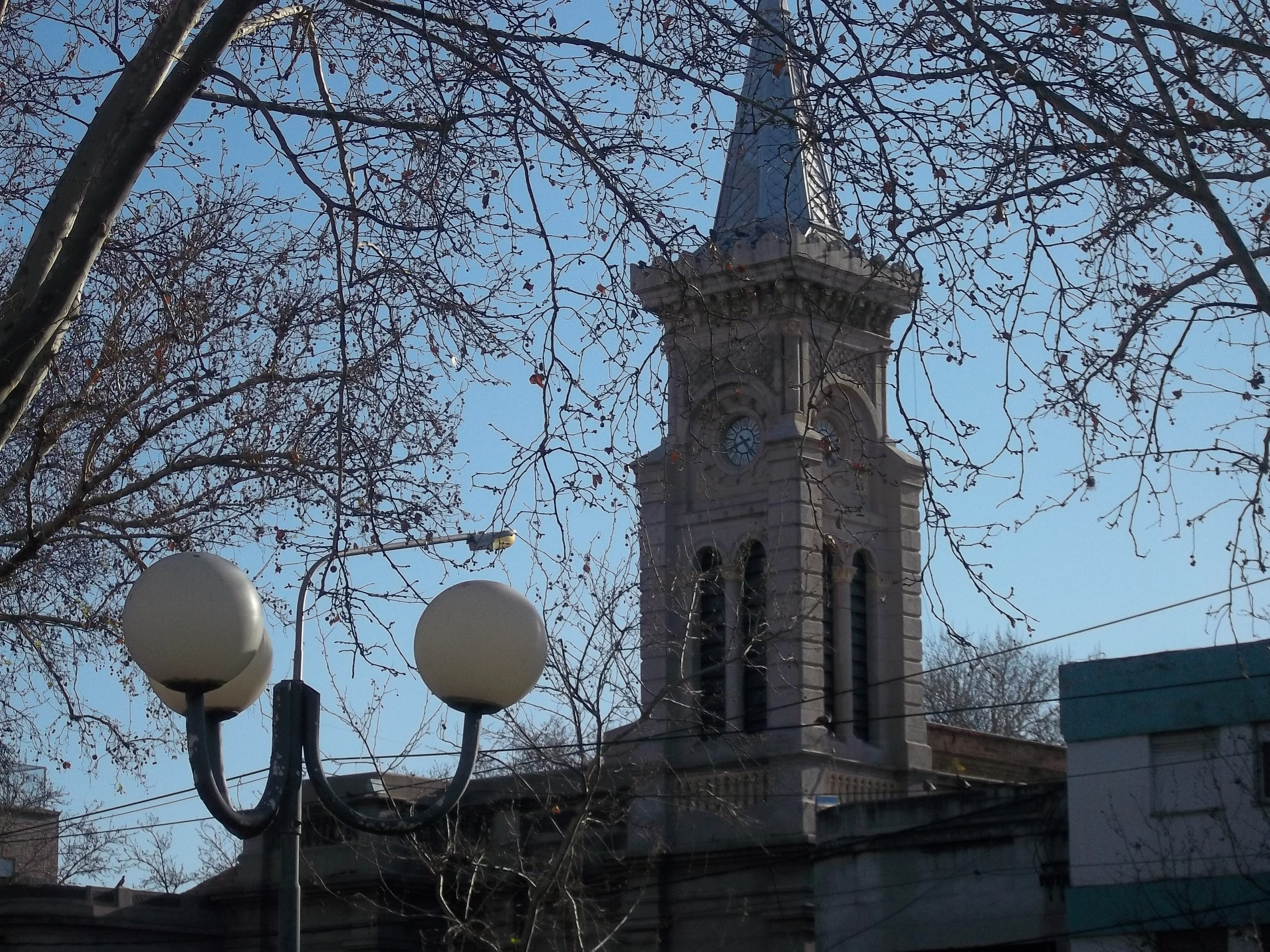 Iglesia, Villa Mercedes, San Luis, Argentina